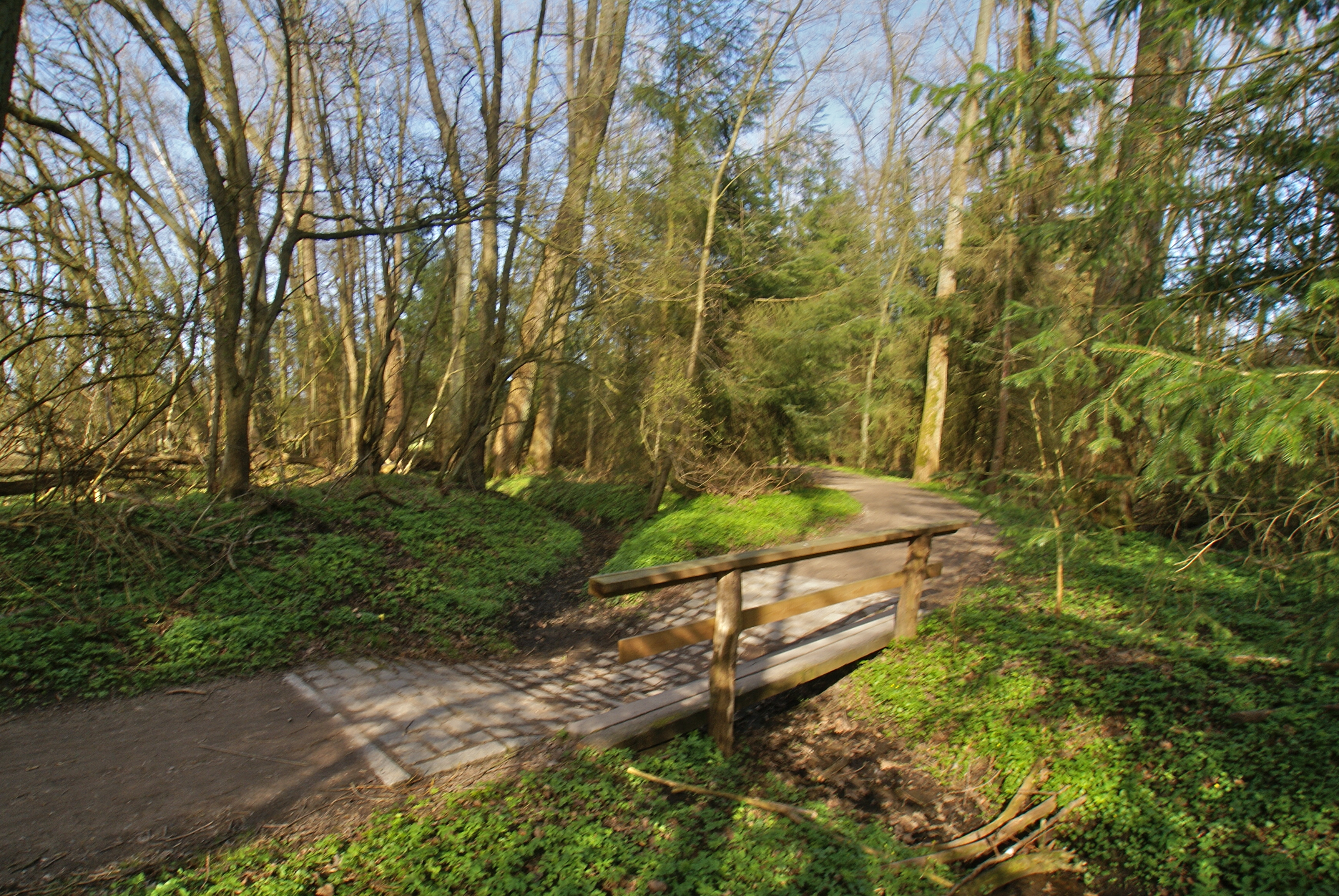 Hamburg (Volksdorf), Germany: Ford at the Diekkampgraben